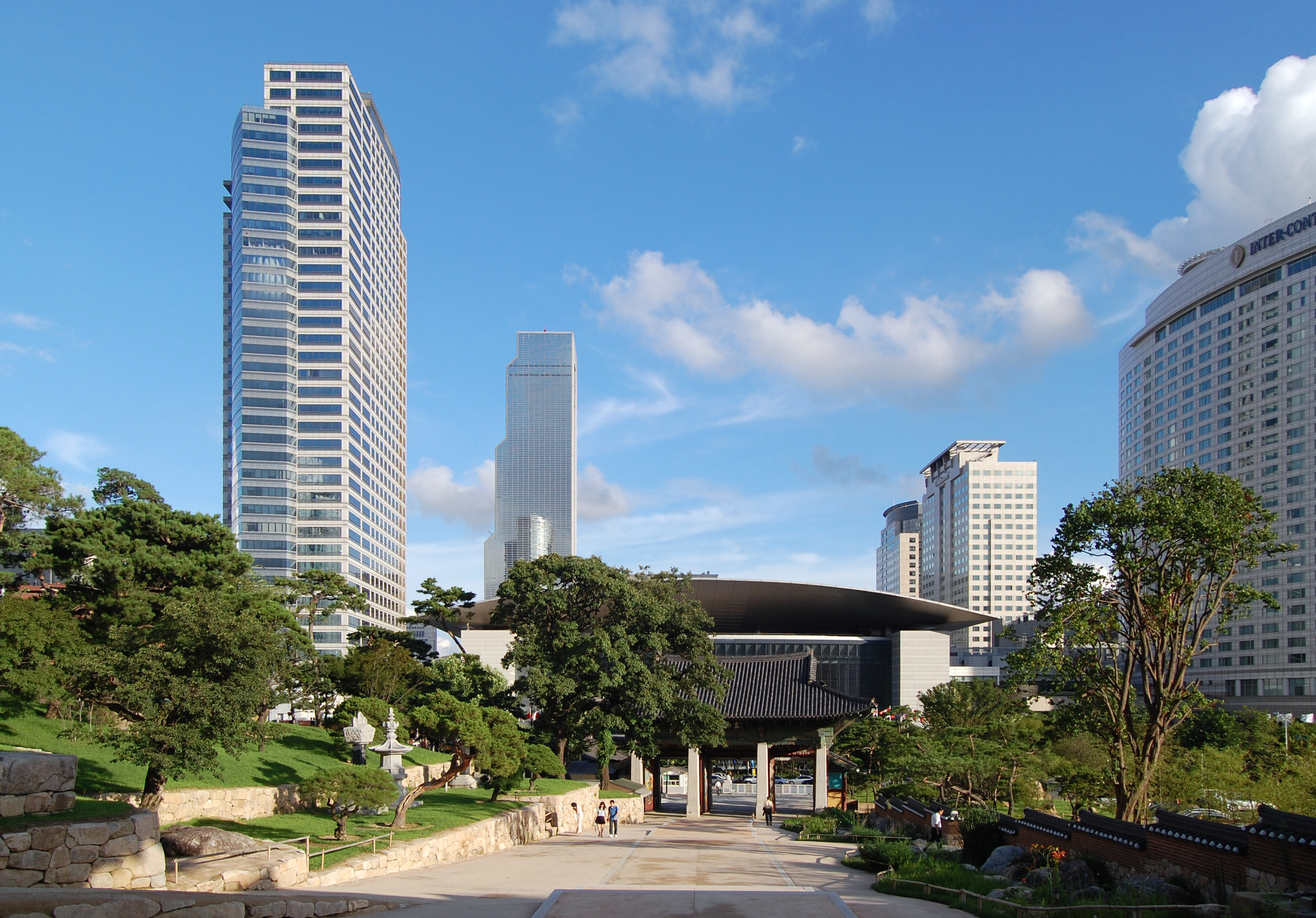 COEX Mall as seen from the Bongeunsa temple, Seoul, Korea.